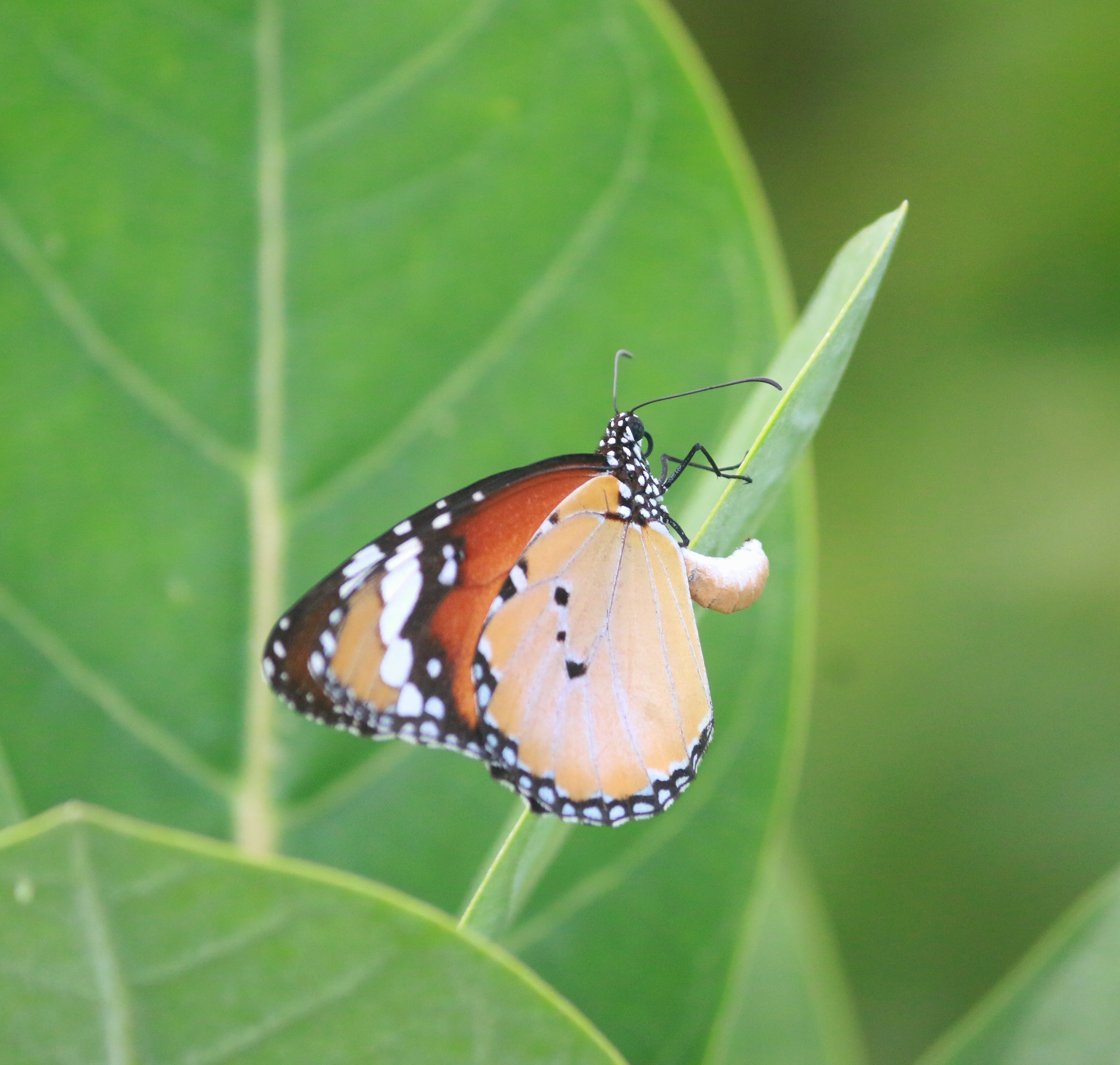 Danaus chrysippus,Plain Tiger laying eggs